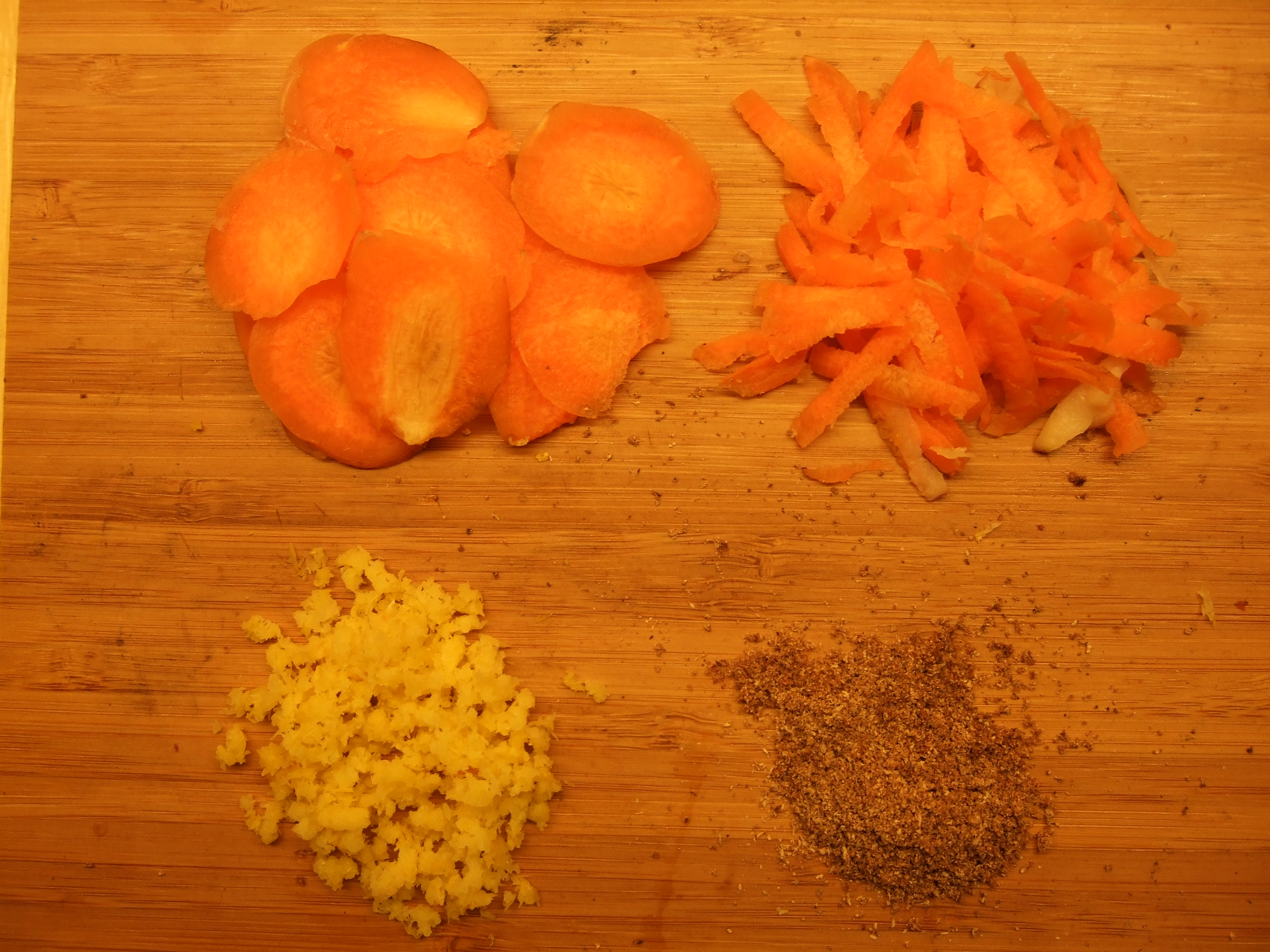 Result from a 4-sided kitchen-grater. (NW-Sliced carrot. NE-Hacked carrot. SW-Grated (coarse) lemon. SE-Grated (fine) nutmeg).